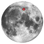 Description: Location of the Aristoteles crater on the Moon. The marker also shows the proximity of the Mitchell, Egede, and Galle craters. Source: This is a modified version of the photo obtained from the NASA Planetary Photojournal. It was modified by RJHall. Width: 150 pixels Height: 150 pixels